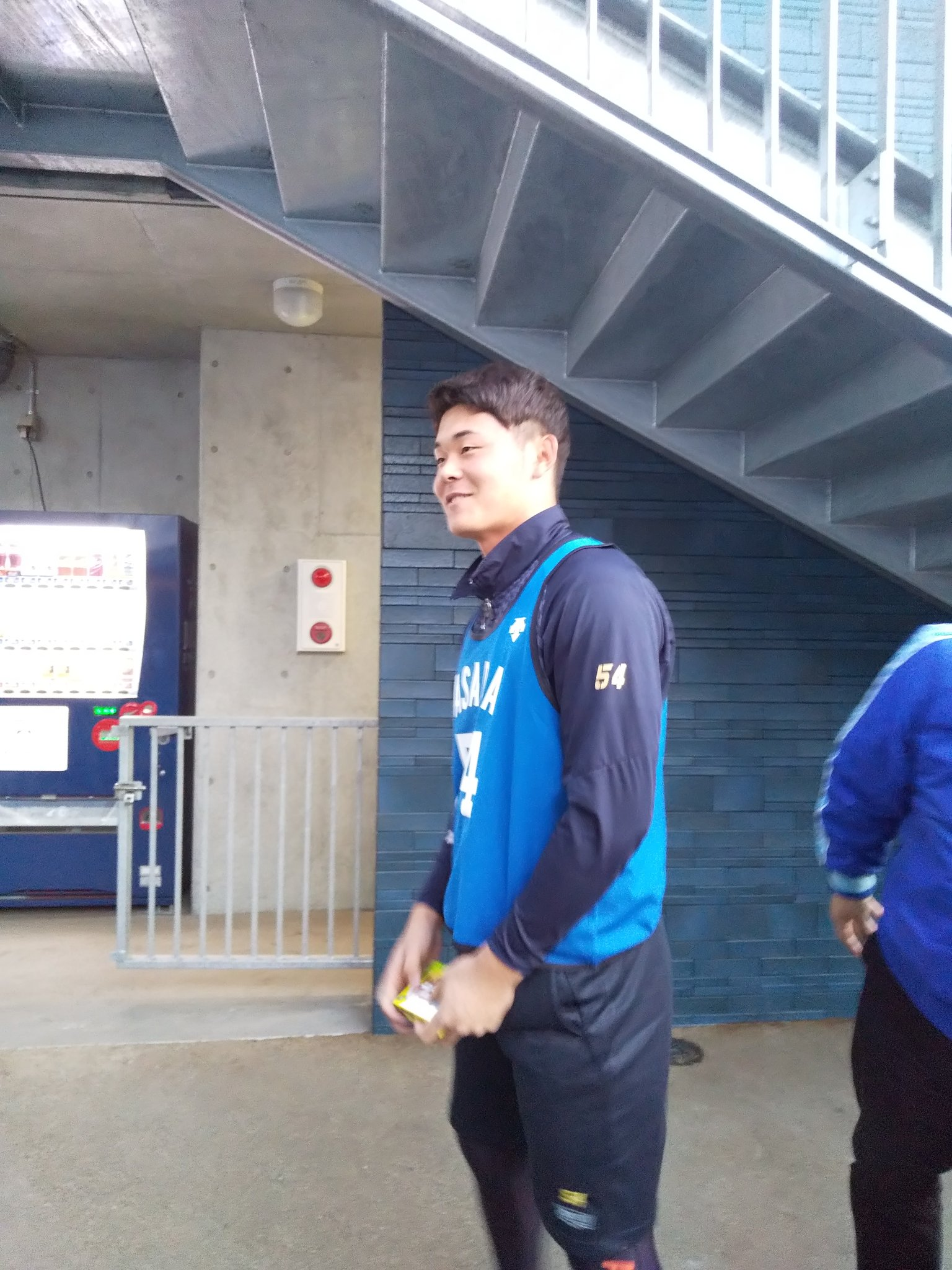 player of baystars.